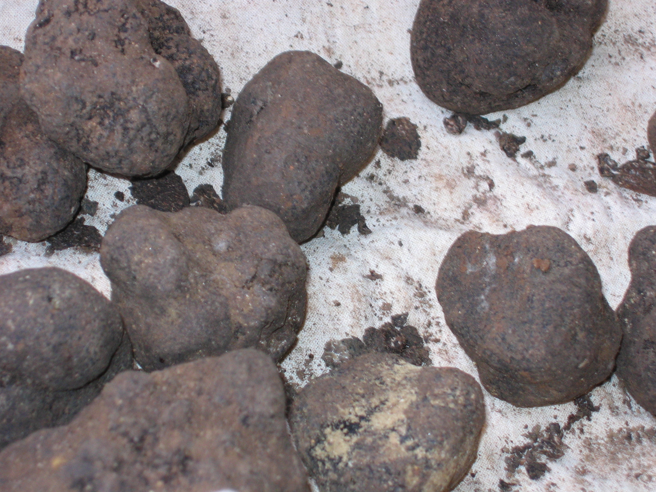 Photo taken by Poppy in January 2006. Truffle from Mont-Ventoux.